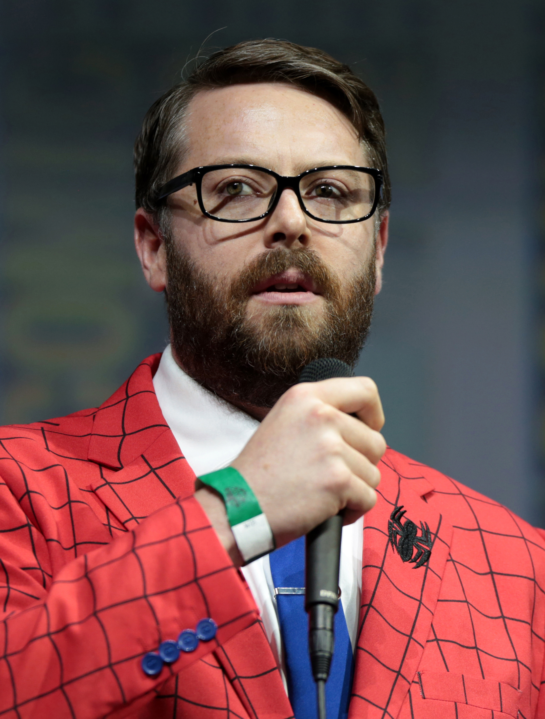 Greg Miller speaking at the 2018 San Diego Comic-Con International in San Diego, California.